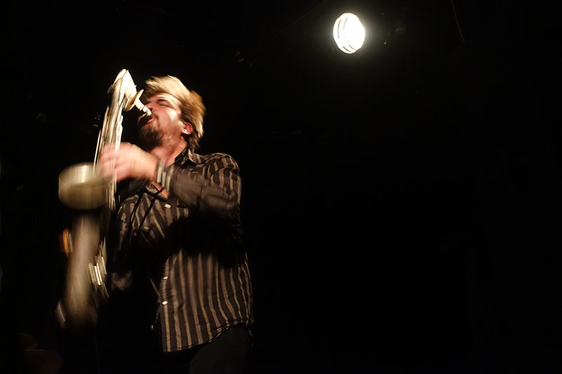 John Dikeman at 11 Tsuki Jazzfest, Aarhus Denmark 2016